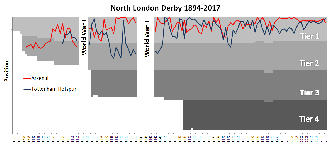 Side-by-side comparison of Arsenal's and Tottenham Hotspur's final league positions 1894-2016